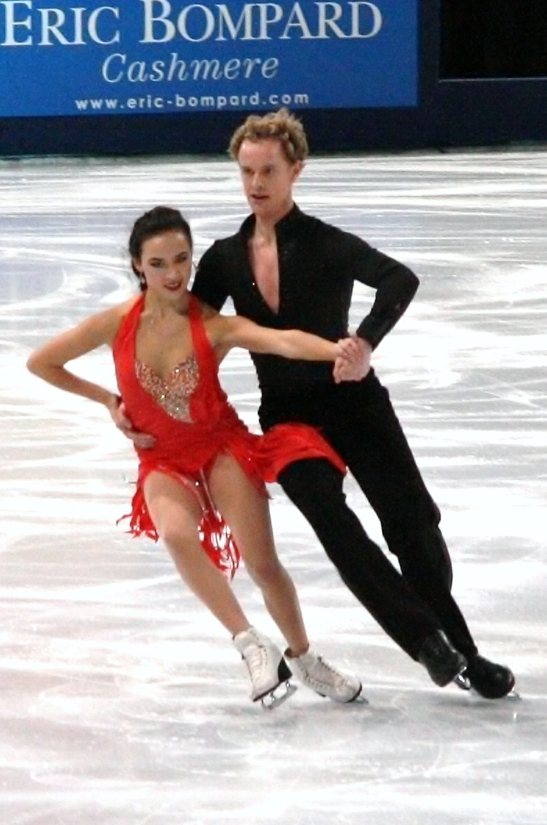 Madison Chock and Evan Bates at the 2011 Trophée Eric Bompard